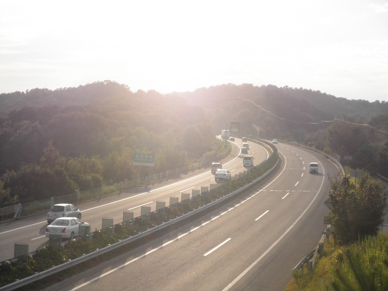 Kurumi Mikicity Hyogopref Sanyo Expressway